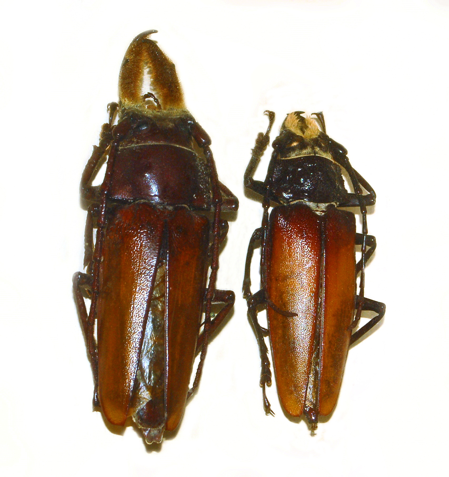 Callipogon barbatus from Guatemala. Male and female